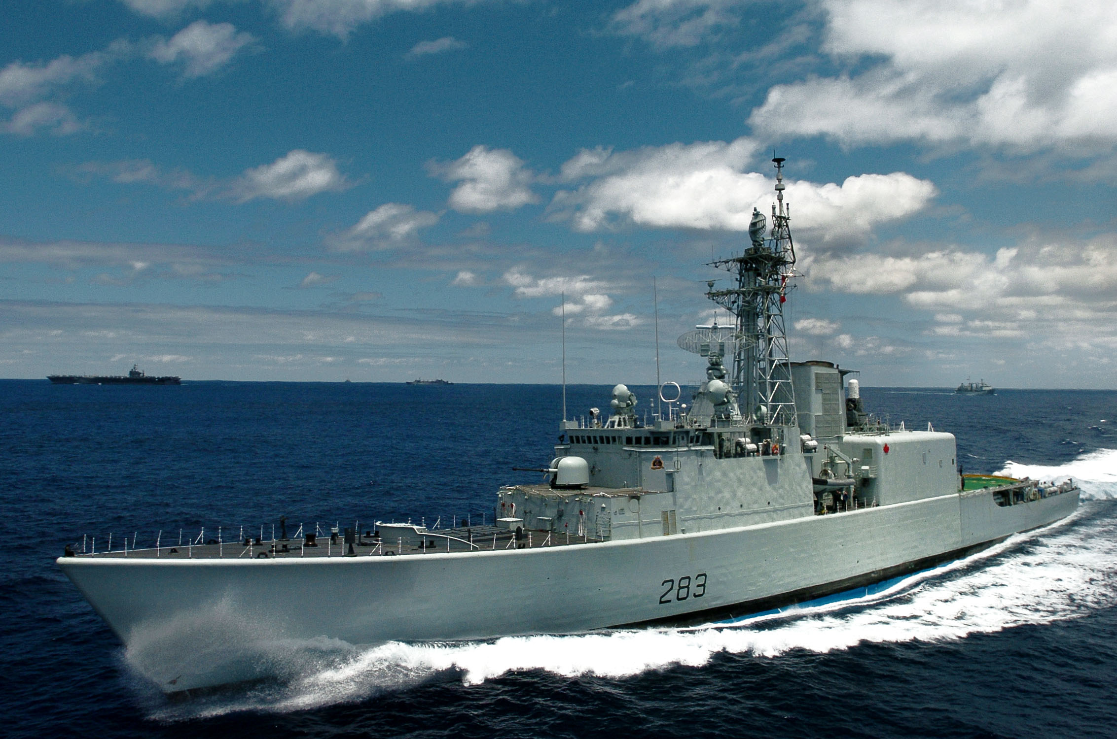 Pacific Ocean (June 25, 2004) - The Canadian destroyer HMCS Algonquin (DDG 283) is shown underway in close formation with the Nimitz-class aircraft carrier USS John C. Stennis (CVN 74). Algonquin just completed an eight-ship photo exercise with Stennis just prior to participation in Rim of the Pacific Exercise (RIMPAC) 2004. RIMPAC is the largest international maritime exercise in the waters around the Hawaiian Islands. This years exercise will include seven participating nations; Australia, Canada, Chile, Japan, South Korea, Britain and the United States. RIMPAC is intended to enhance the tactical proficiency of participating units in a wide array of combined operations at sea, while enhancing stability in the Pacific Rim region. U.S. Navy photo by Photographer's Mate 2nd Class Jayme Pastoric (RELEASED)